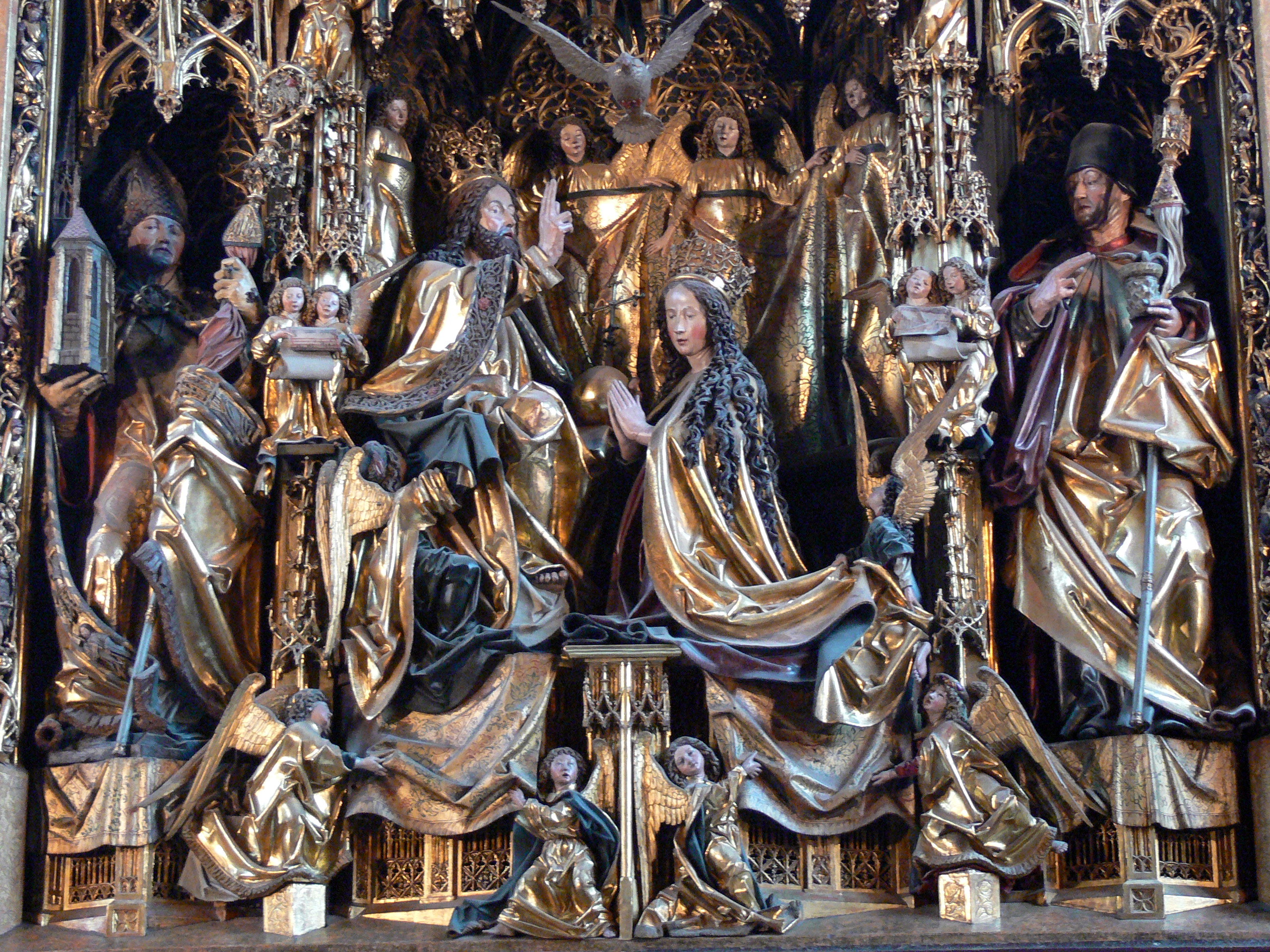 Sankt Wolfgang im Salzkammergut parish church ( Upper Austria ). High altar ( 1481 ) by Michael Pacher: Coronation of Virgin Mary.